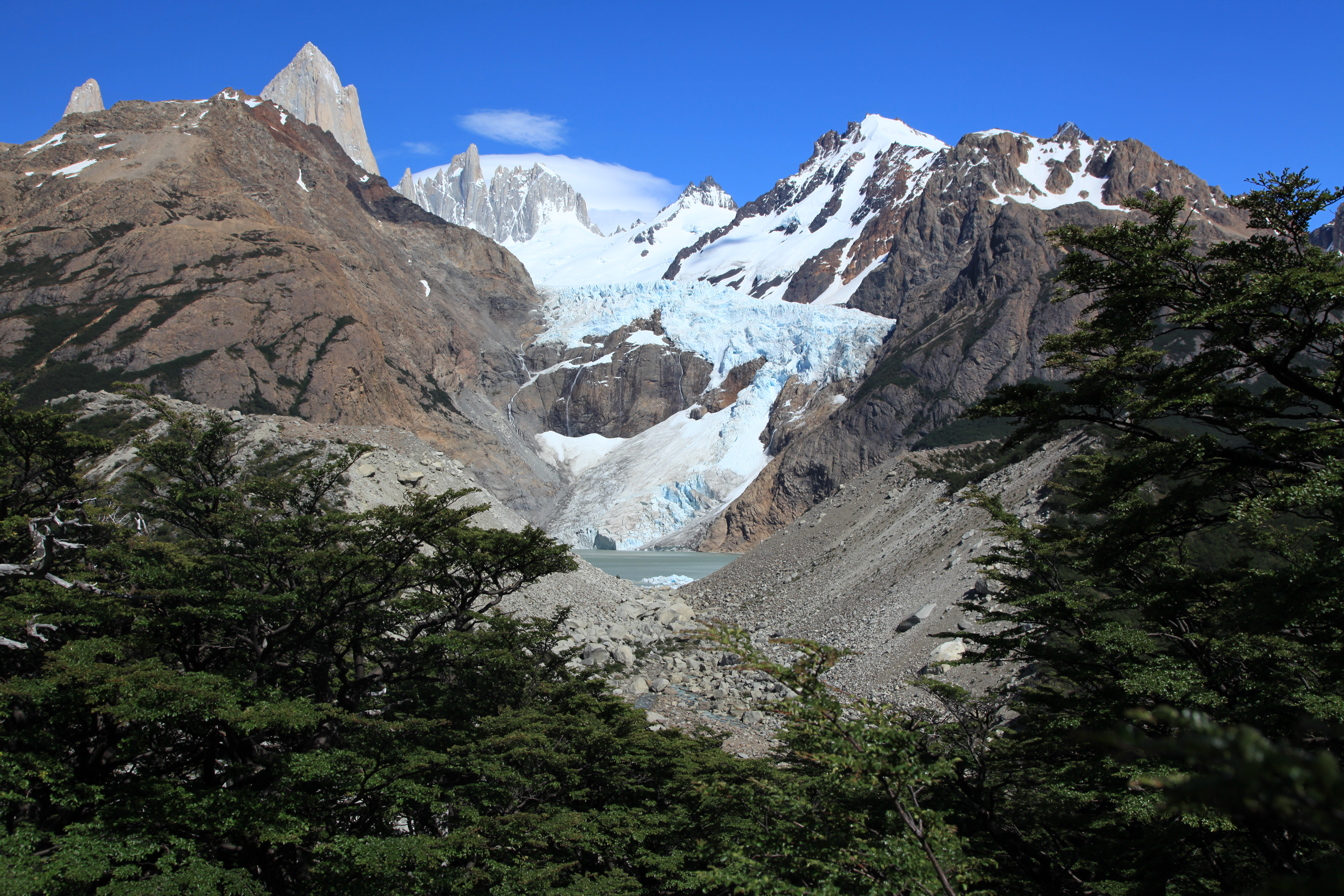 Hike to Mount Fitz Roy